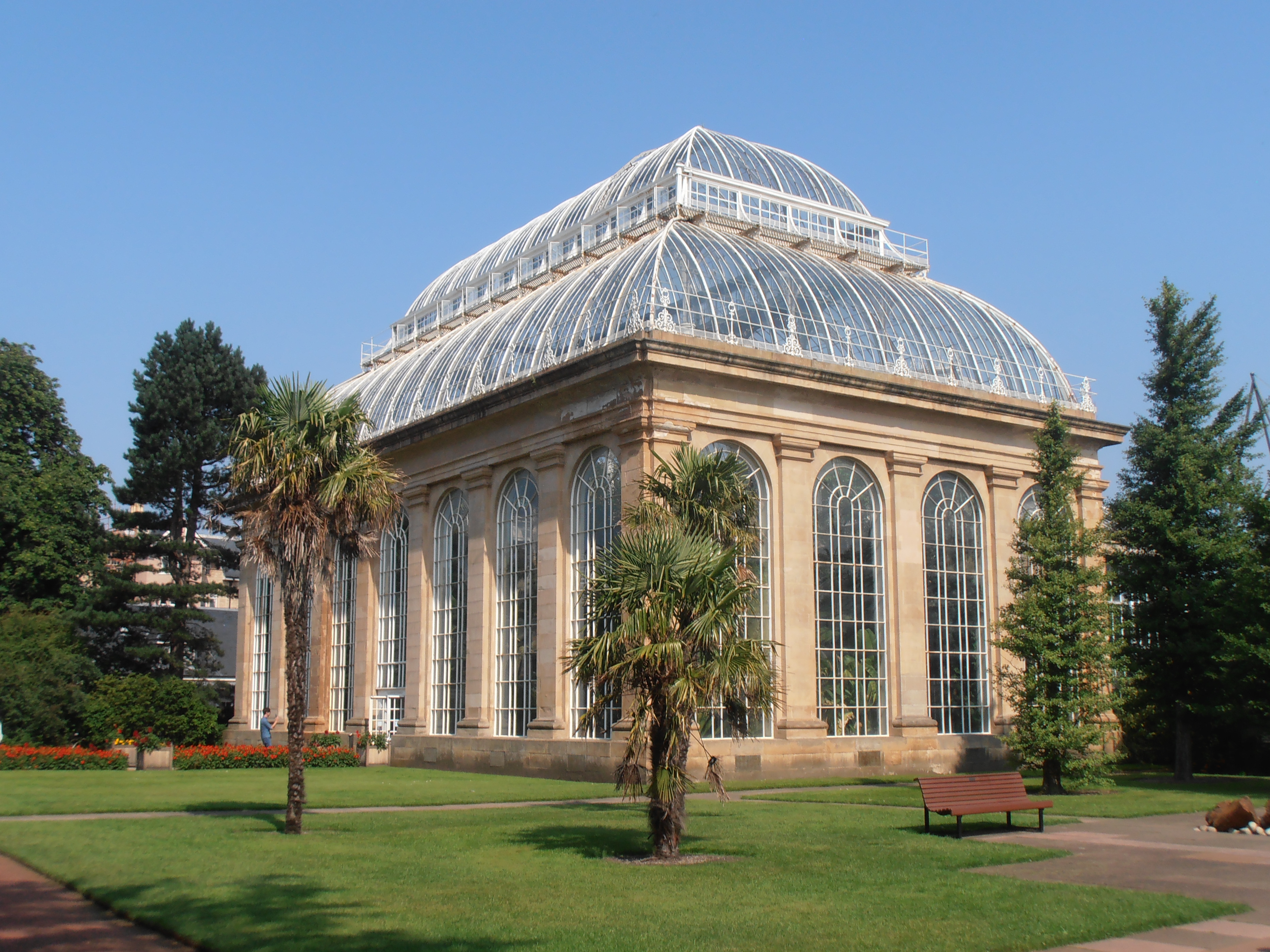 Palm House, Royal Botanic Garden Edinburgh (Robert Matheson, 1856–8), seen from the south-south-west